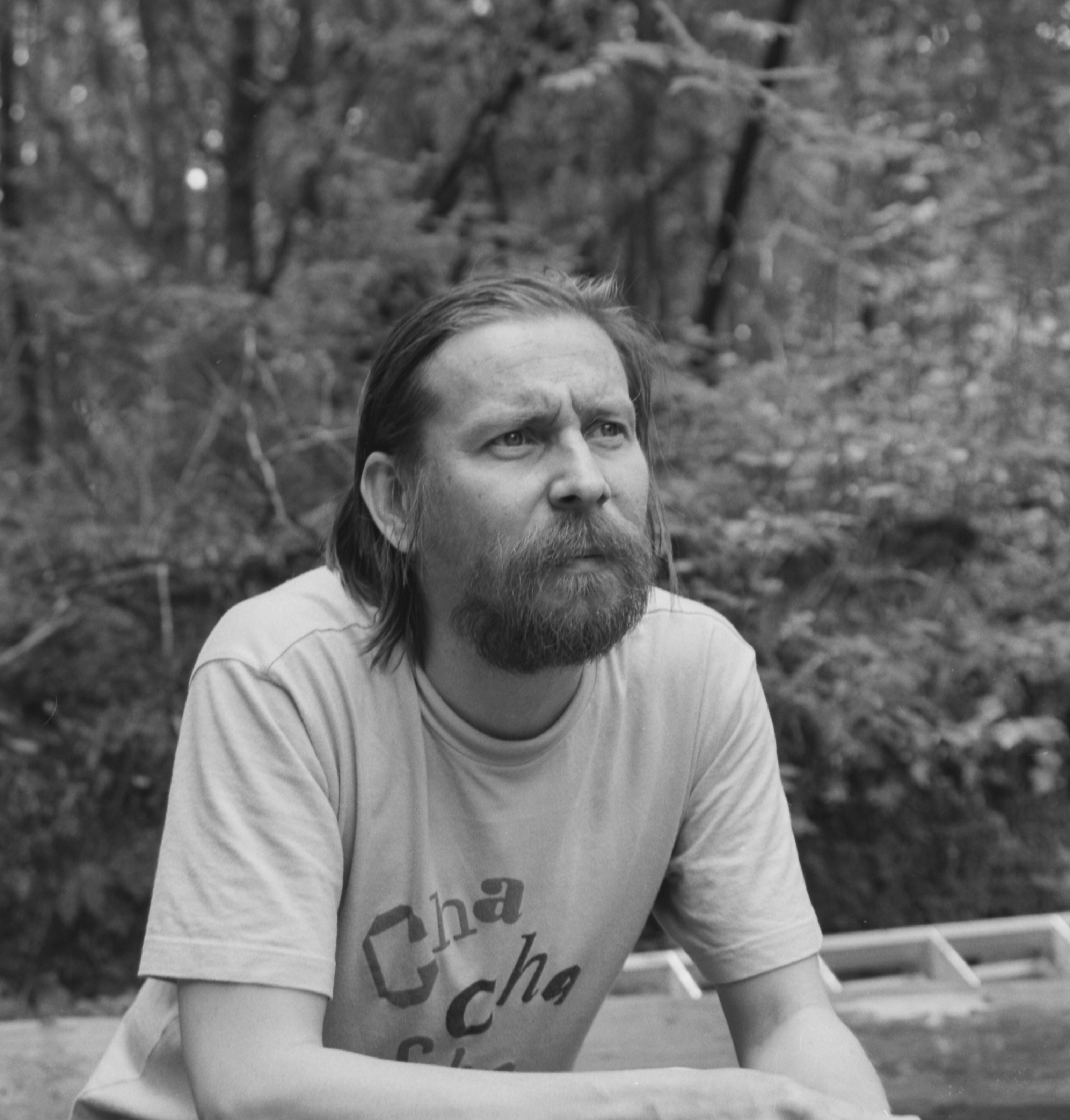 Photograph of the Finnish actor Matti Pellonpää (1951–1995) at Intiaanirock in Valkeakoski.